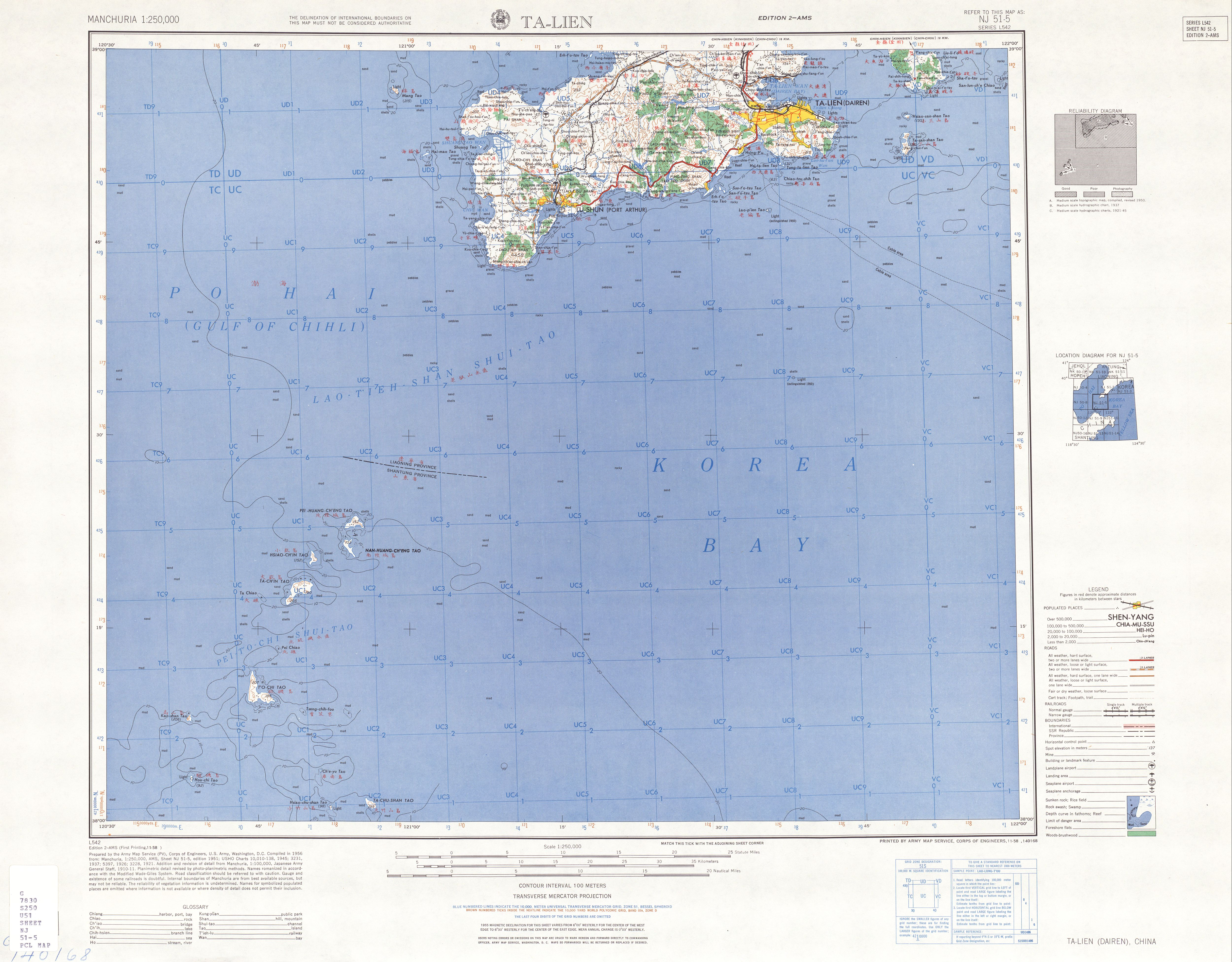 Map of Dalian (Ta-lien, Dairen) area, Liaoning